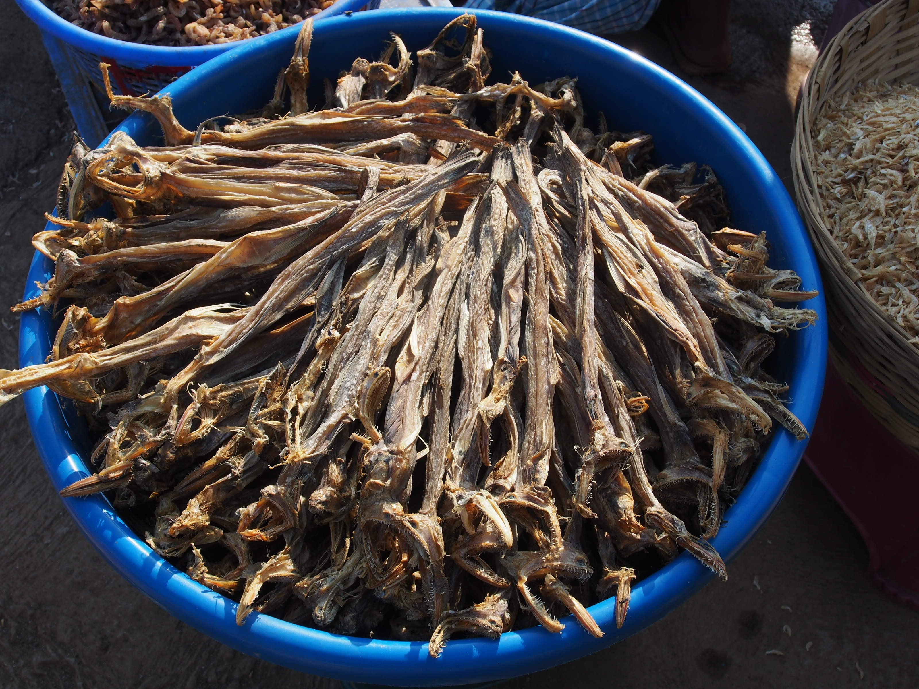 Bombay Duck Dried for sale at Bharadkhol Fish market, Maharashtra